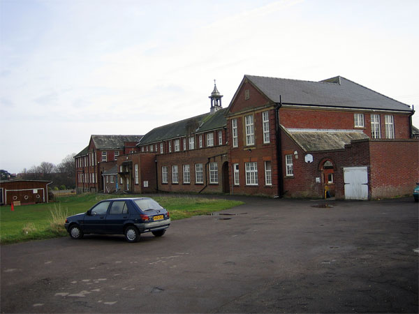 The Old Grammar School, Swanage. Swanage Grammar School in Northbrook Road opened in 1929 and closed down in 1973 with the coming of comprehensive education and the opening of the Purbeck School in Wareham. The building's future remains uncertain, as plans to convert it into holiday homes have been repeatedly rejected.